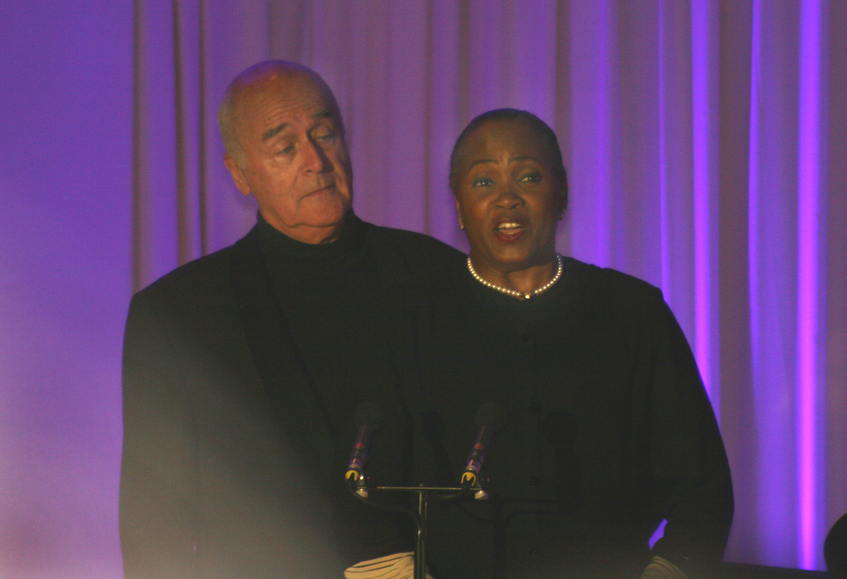 José van Dam and Barbara Hendricks at a walk concert at Abbaye de la Cambre, september 2006.